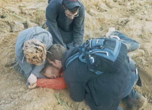 Image of Rachel Corrie after she was crushed by a bulldozer in Rafah, being tended by her friends. Michael Hess, editor of BBS News, said: That would be fine Martin. Please include the phrase "BBSNews File Photos. Used With Permission." Thanks for the interest.